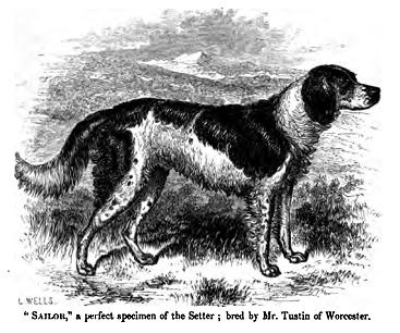 Setter (English and Irish)